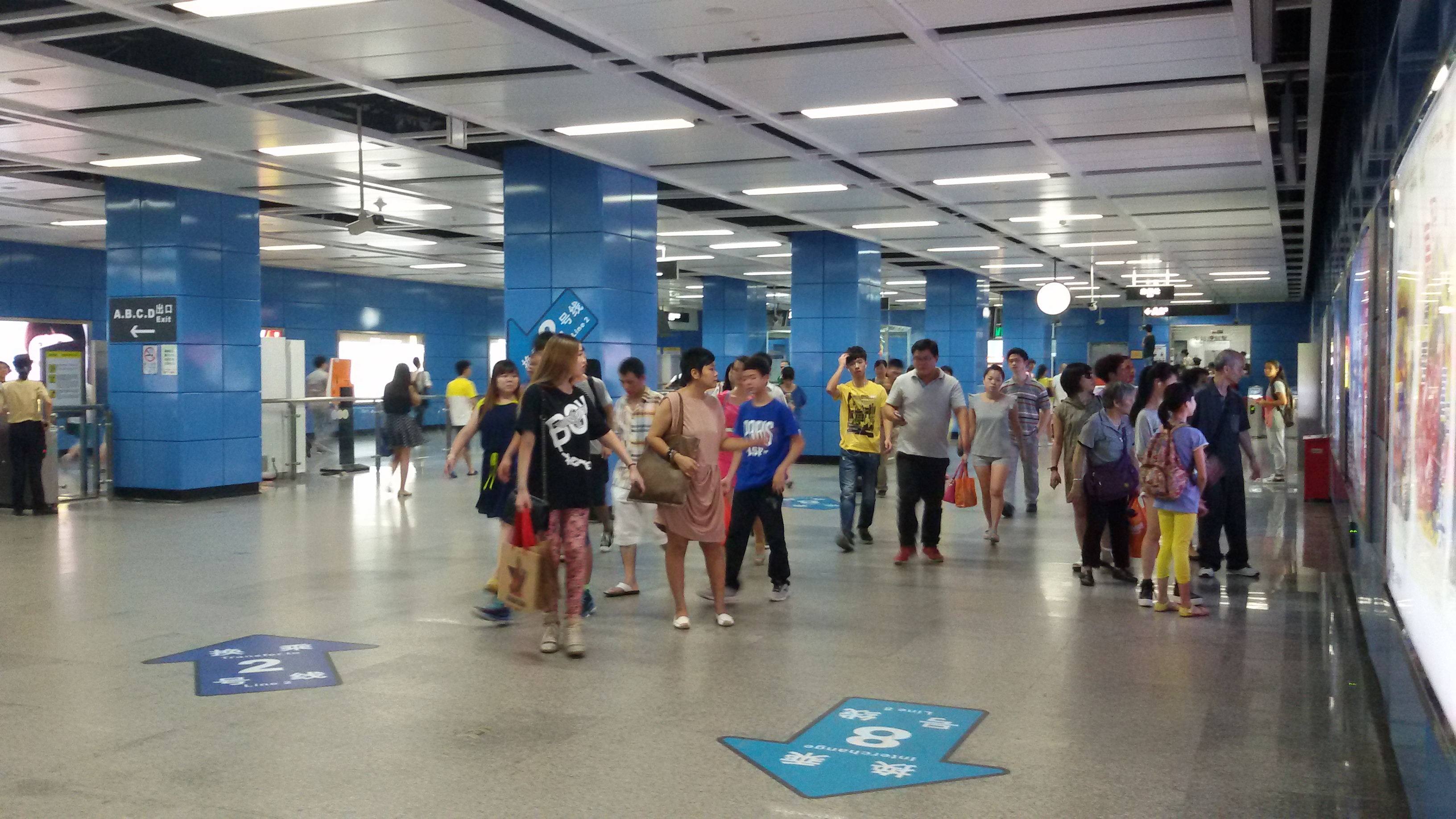 Concourse for Changgang Station in Line 2, Guangzhou Metro 粵語: 昌崗站嘅2號綫站廳